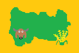 Flags of the city of Campina Verde, Minas Gerais, Brazil.